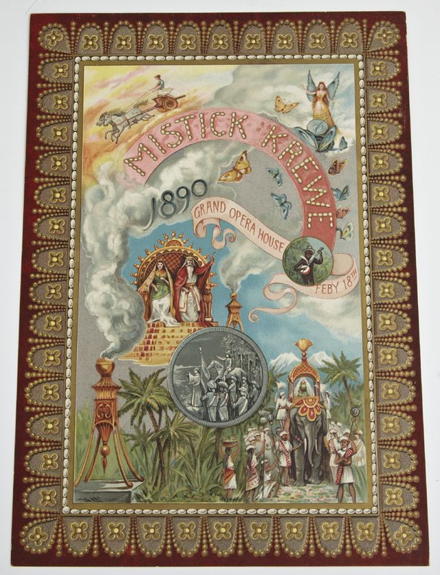 Comus Invitation 1890